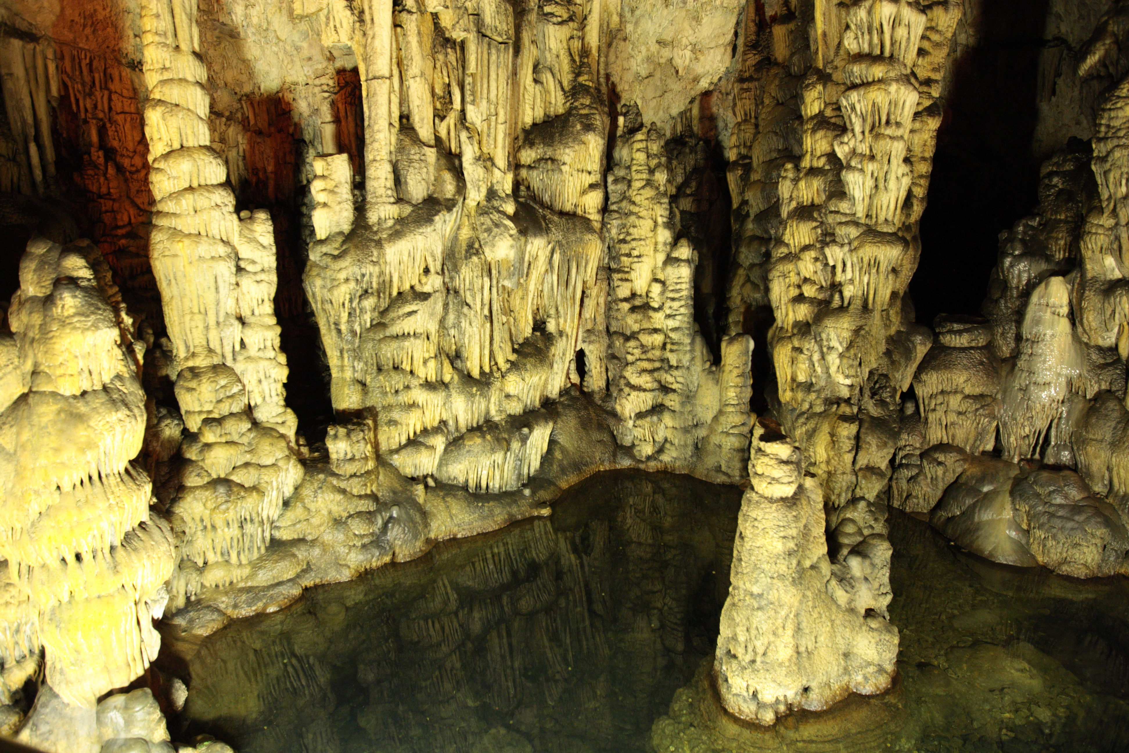 Cave of Dikti (Psychro Cave), Crete